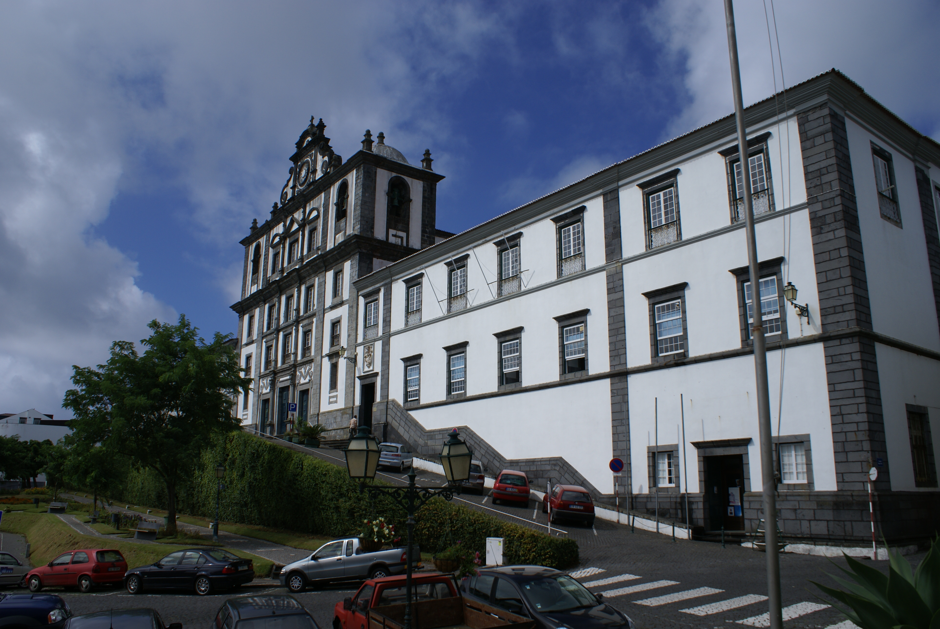 Igreja do Santíssimo Salvador e Convento dos Jesuítas, cidade da Horta, ilha do Faial, Açores, Portugal